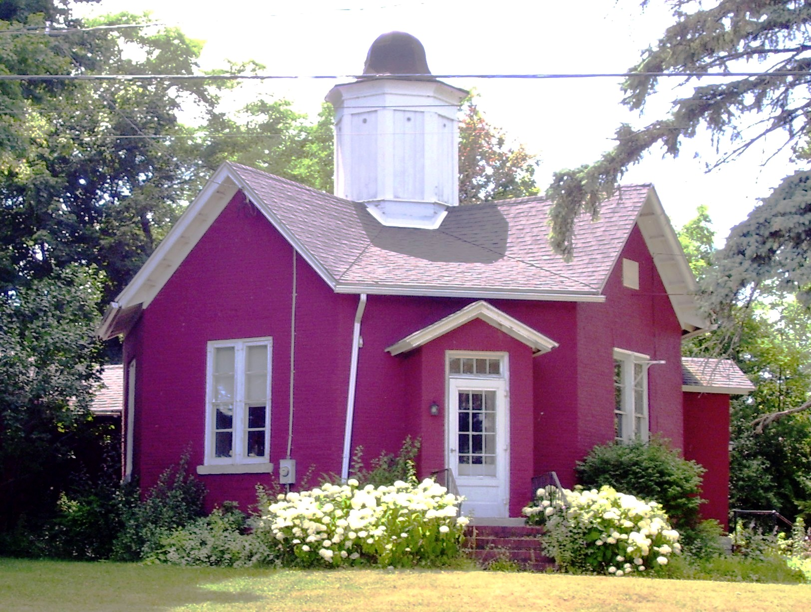 The octagonal structure at 3138 West Lake Road (Route 41A) at the intersection of Benson Road (County Road 117) in Skaneateles, New York was built by Quakers in 1859 as a girls dormitory. It was known locally as "the Bee Hive", and is now a private residence. (Source: [1])